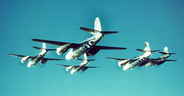 B-26 Marauder of the 555th Bomb Squadron, 386th Bombardment Group returning to England after a raid on the continent.